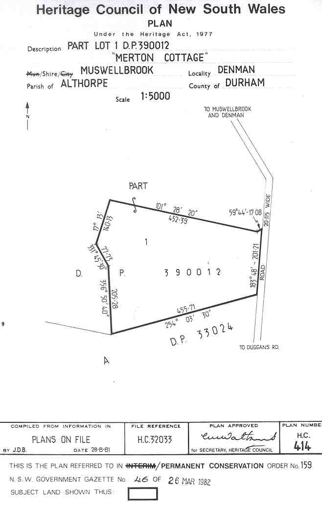 Merton (New South Wales): PCO Plan Number 159